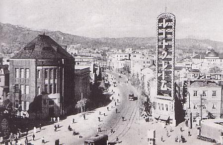 Nandaimon-Dori in Keijo(Seoul)